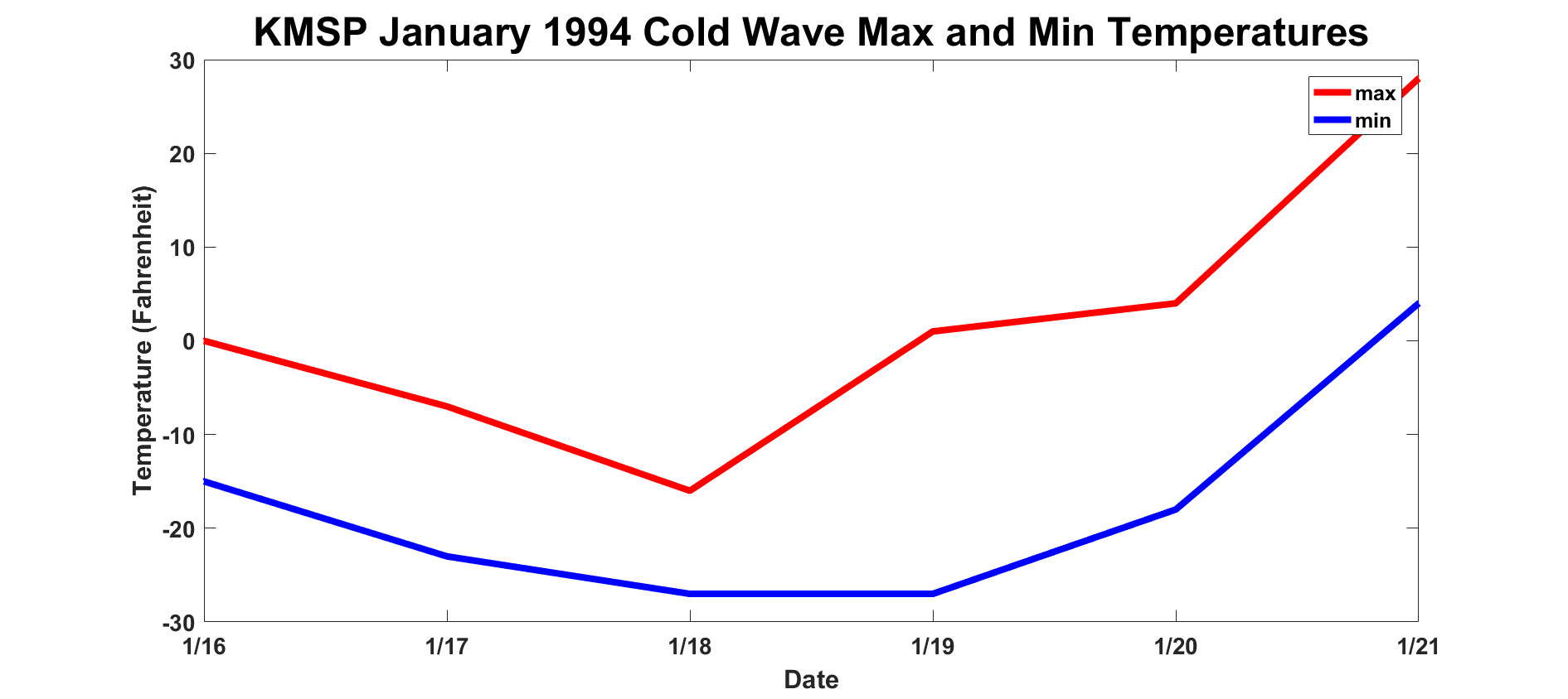 Daily maximum and minimum temperature data at Minneapolis St. Paul International airport over the 1994 North American Cold Wave.